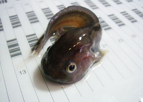 Young gelatinous snailfish (aka gelatinous seasnail) (Liparis fabricii). Photo taken during the 2008 Beaufort Sea Survey.